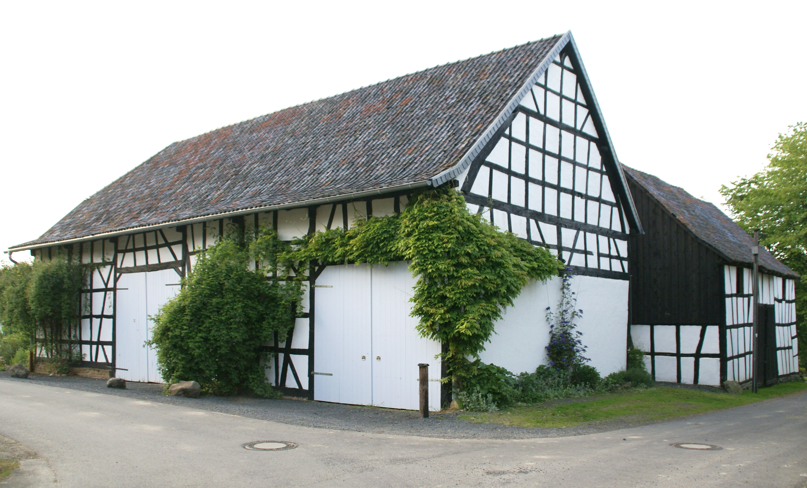 Half-timbered barn in Rübhausen, Arnoldsgarten/Rübhausener Straße